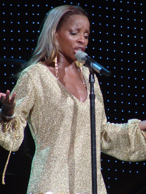 Mary J. Blige live in Charlotte, NC